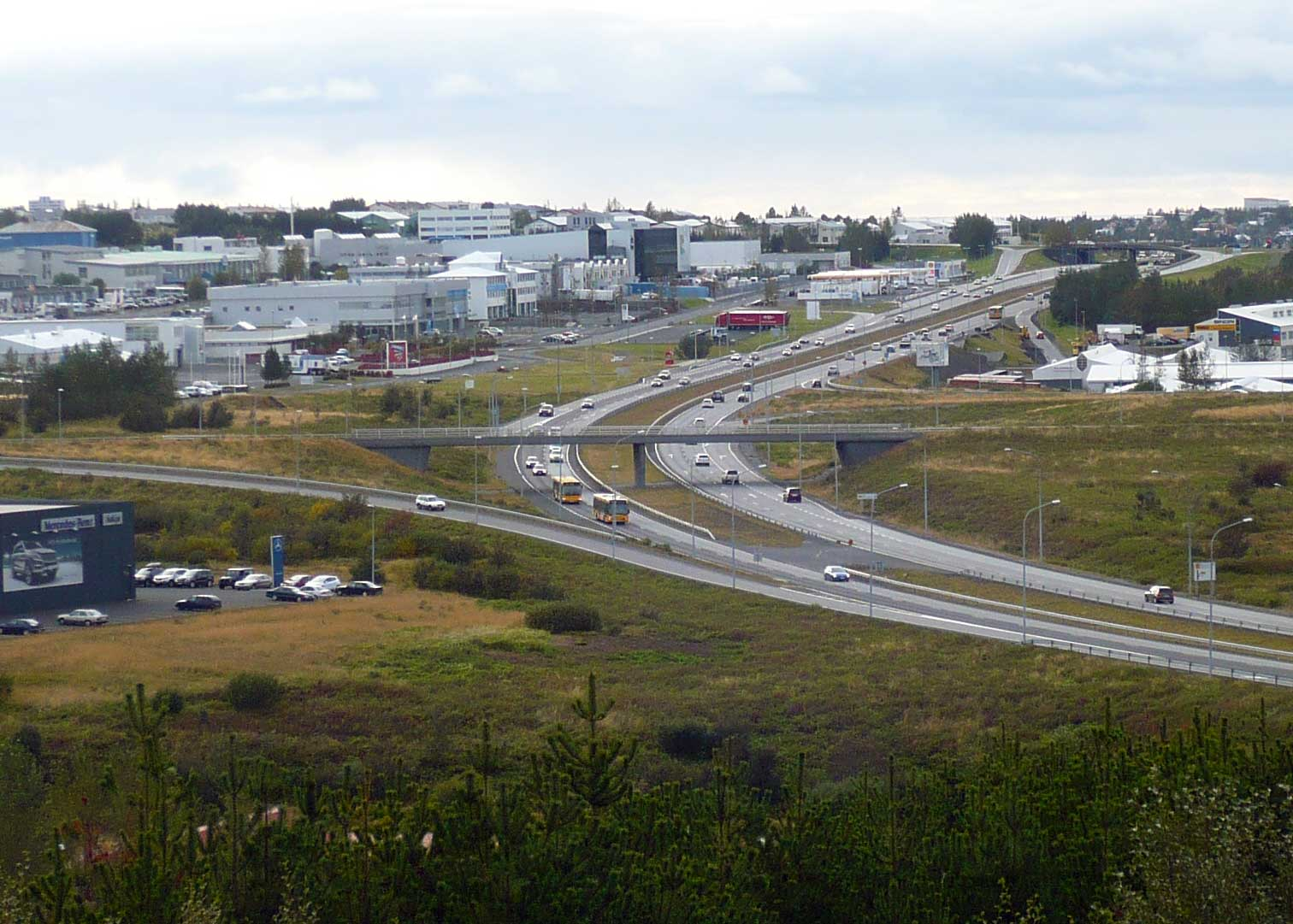 The junction of Vesturlandsvegur and Suðurlandvegur in Reykjavík, Iceland